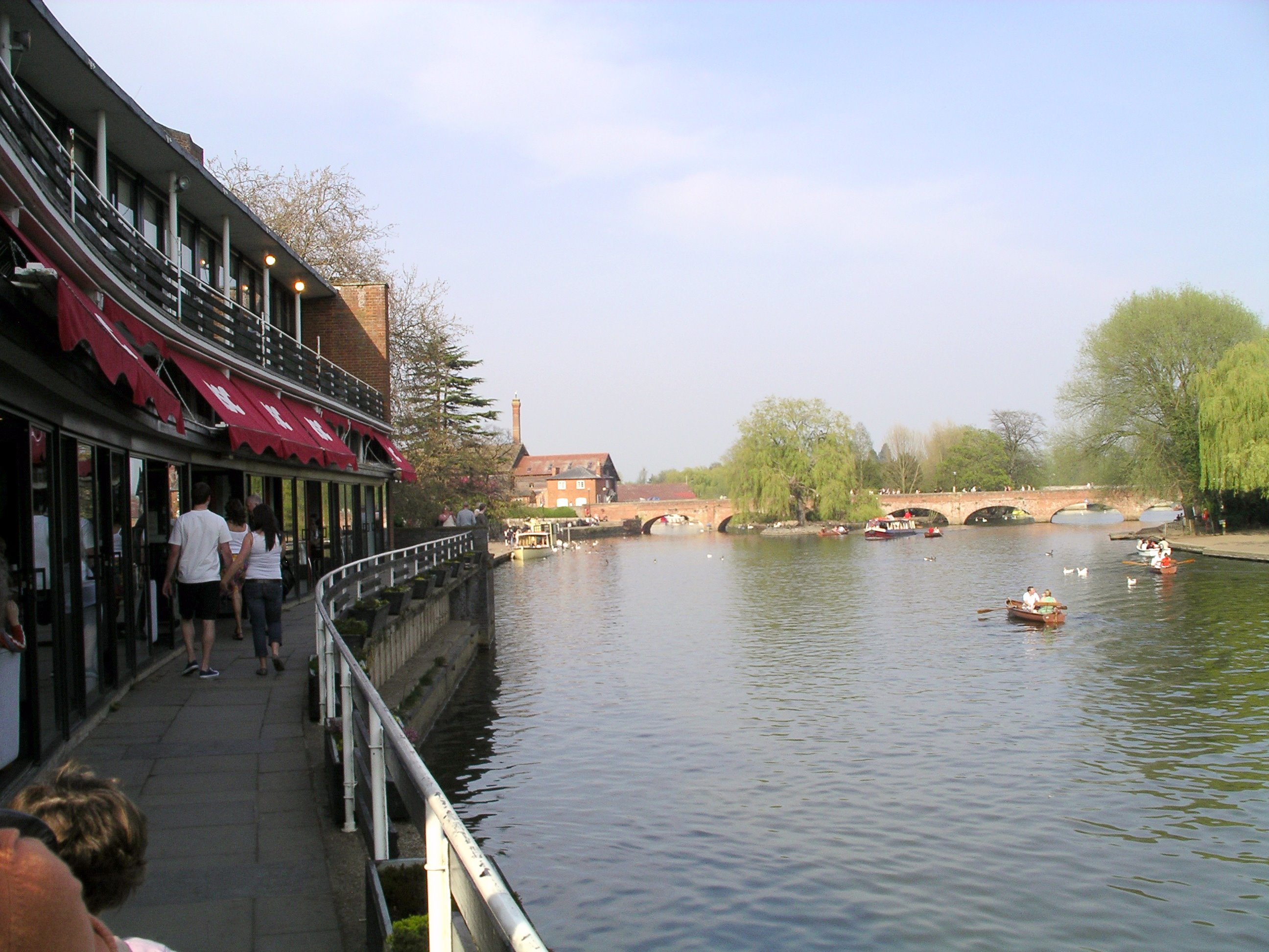 The bridge over the River Avon at Stratford-on-Avon, Warwickshire, England, and the side of the Royal Shakespeare Theatre.